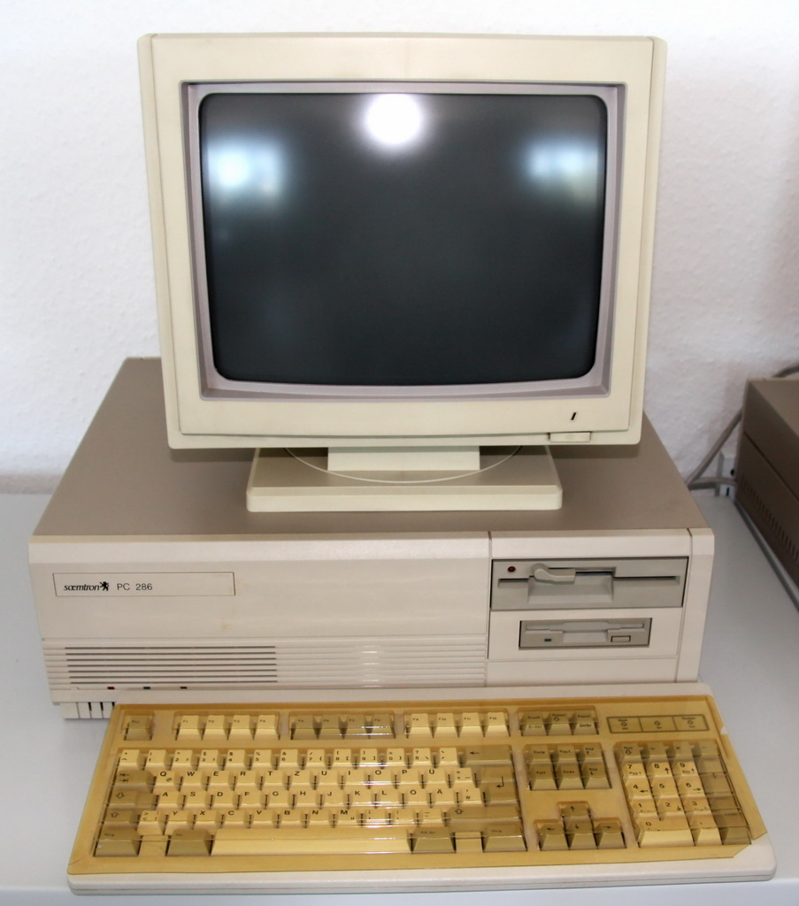 soemtron Personalcomputer PC 286 recorded in Stadtarchiv Sömmerda